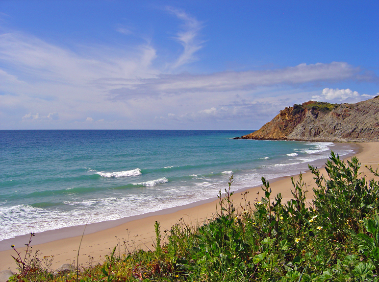 Burgau beach, Southwest Alentejo and Vicentine Coast Natural Park, Portugal.